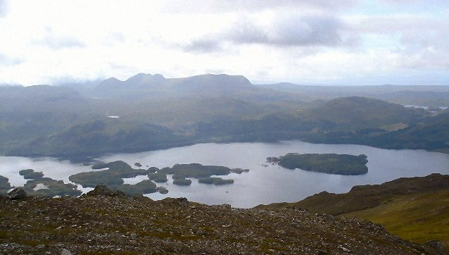 View down to the islands on Loch Maree.